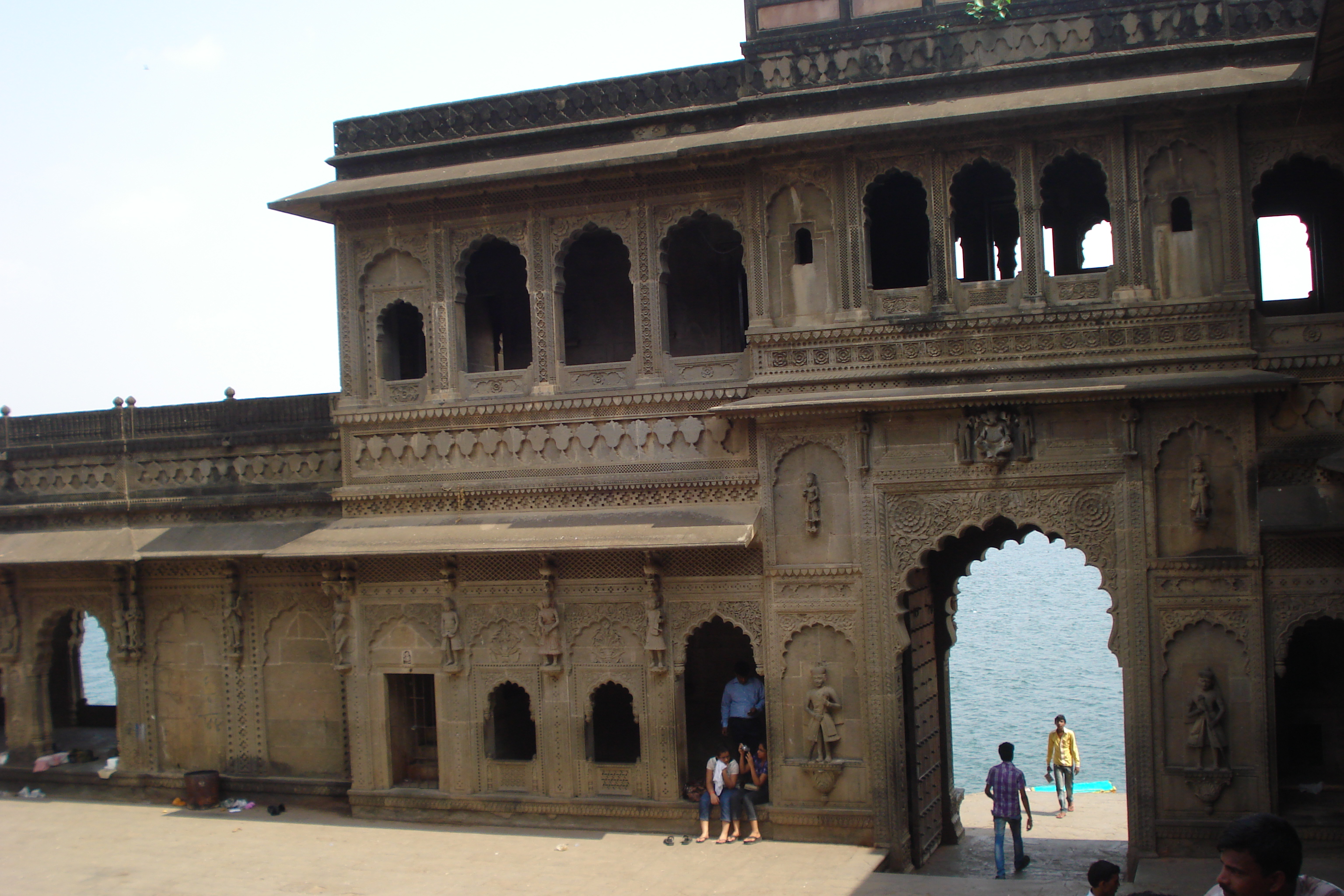 Ahilya bai 4